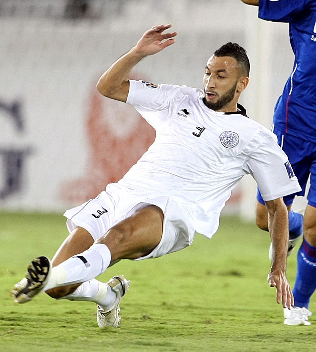 Al Sadd's Algerian professional Nadir Belhadj in action against Suwon Bluewings during the 2011 AFC Champions League.